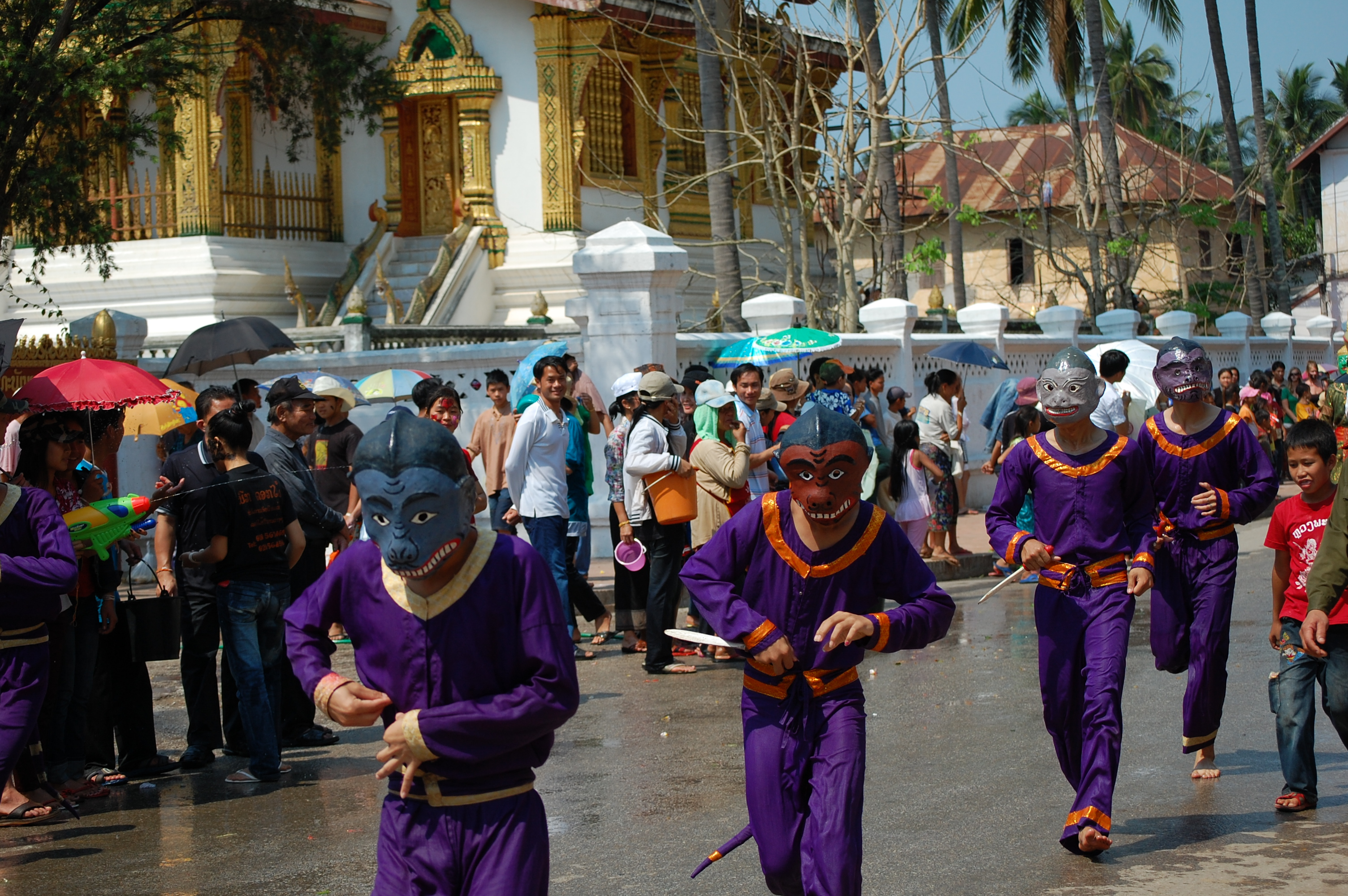 An army of monkeys.